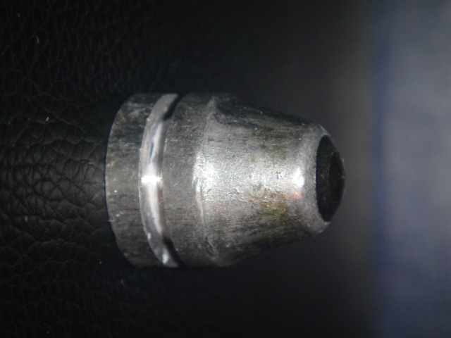 35-gram Paradox Slug, Russian-made